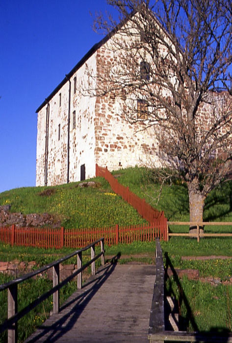 Kastelholm Castle in Sund, Åland, Finland